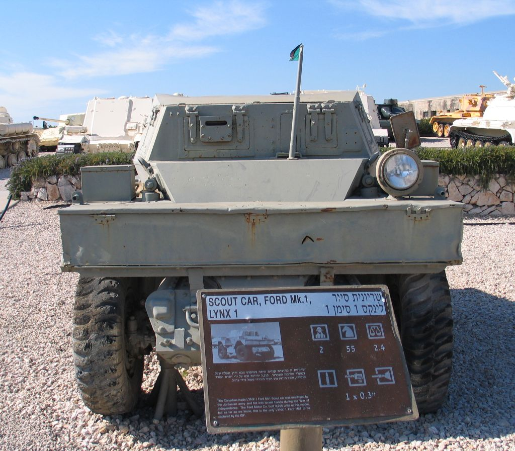 Description: Ford Lynx scout car in Yad la-Shiryon Museum, Israel. 2005. Source: Photo by me, User:Bukvoed.